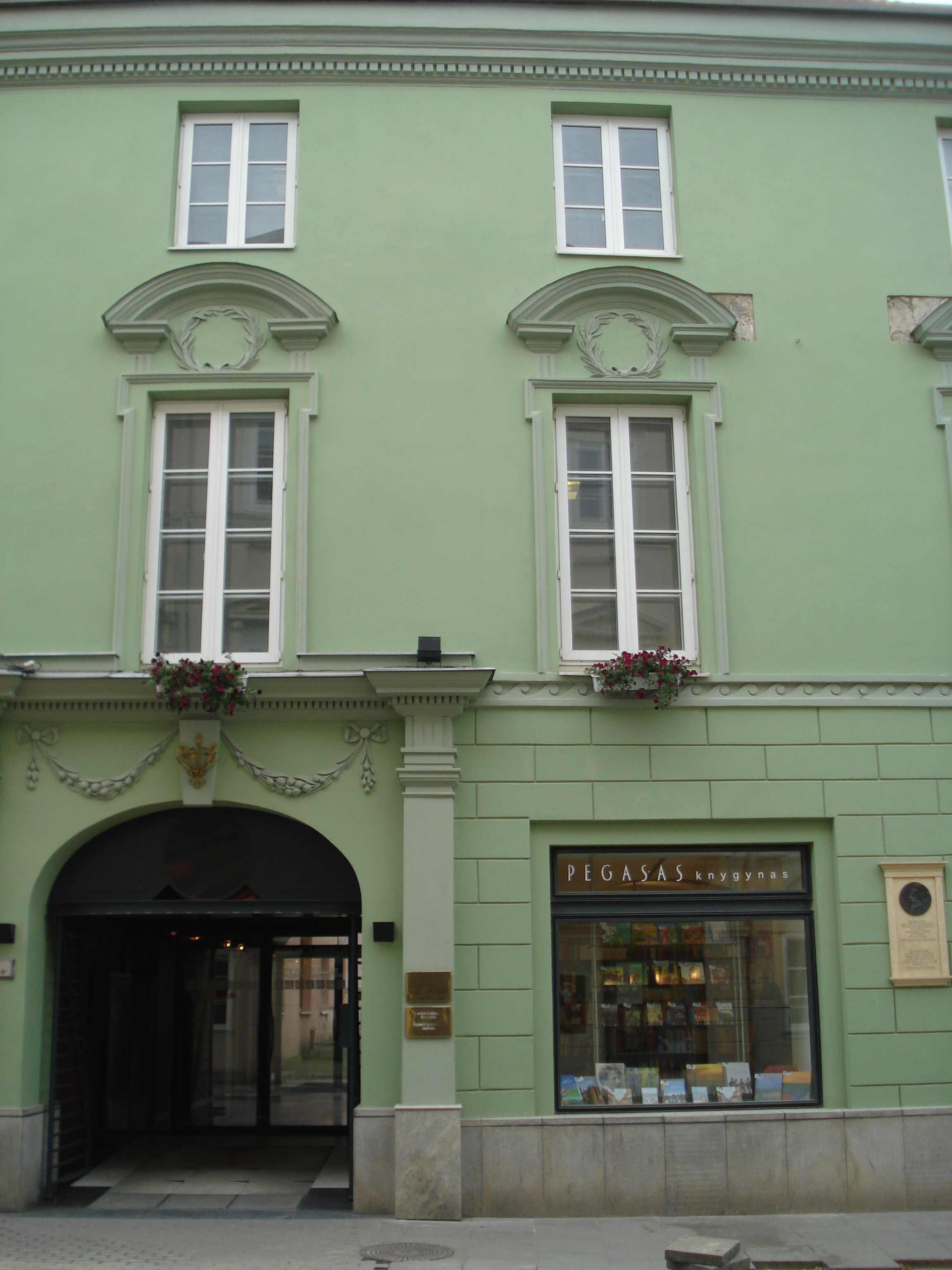 House of Frank in Vilnius (Didžioji g.). Reconstruction by Michal Schulz (Mykolas Angelas Šulcas; (1769–1812)